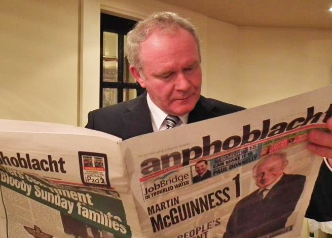 Martin McGuinness reads a copy of An Phoblacht. The paper was the only one to endorse his campaign for the Irish Presidency in 2011